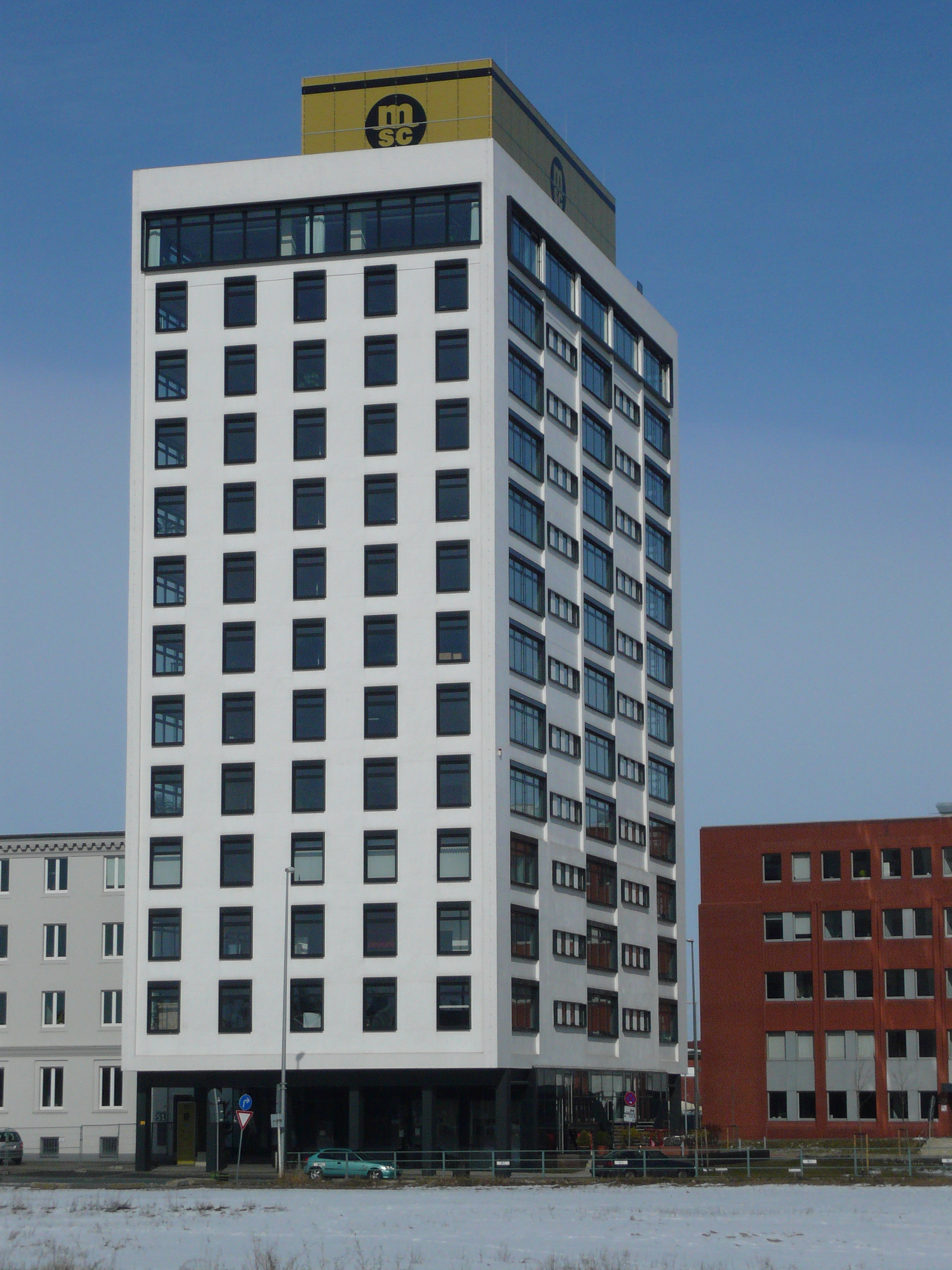 The high-rise "Hafenhochhaus" in Bremen, Germany